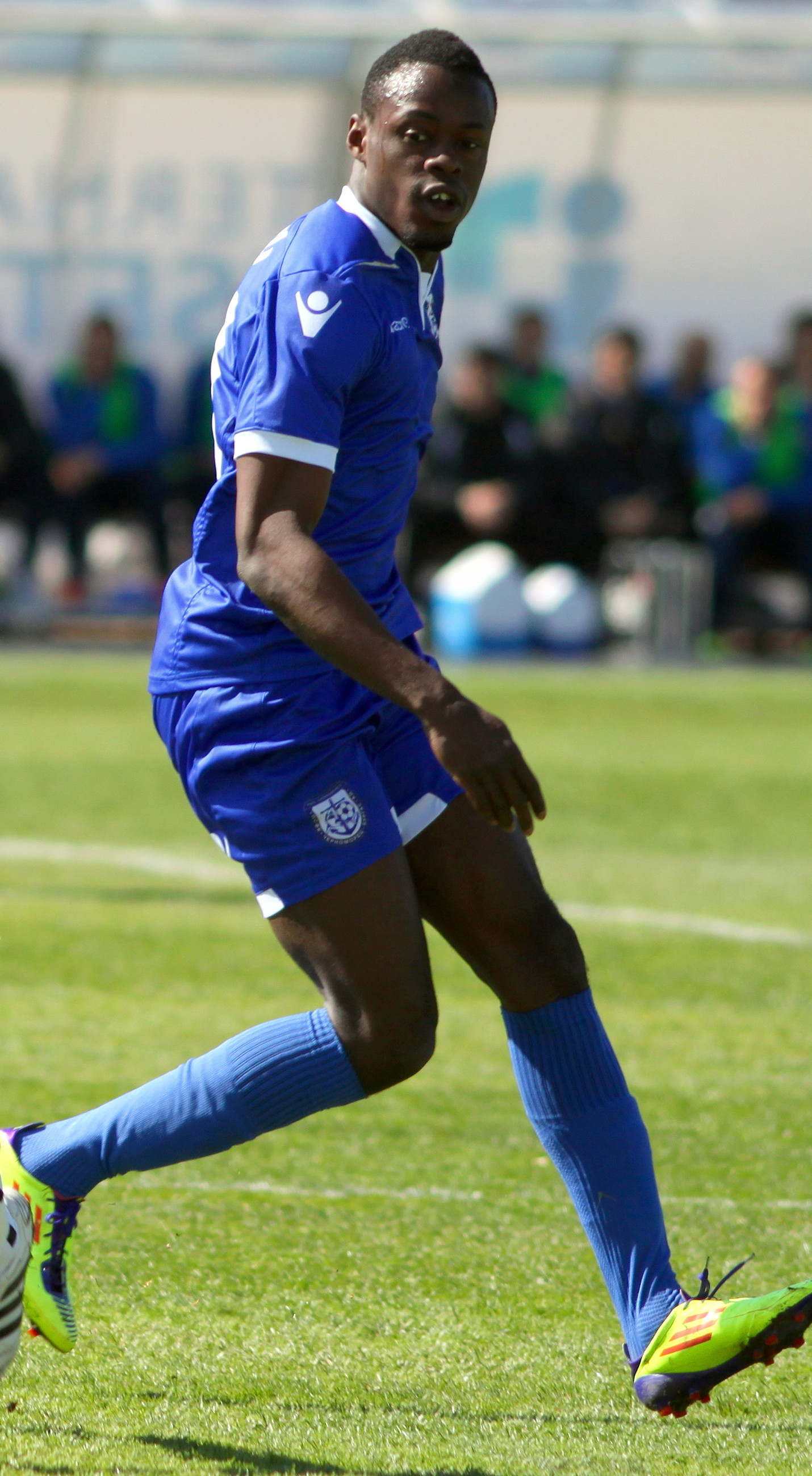 Yannick Boli (born 13 January 1988 in Saint-Maur-des-Fossés) is a French footballer of Ivorian descent who currently plays for Bulgarian A PFG club Chernomorets Burgas as a forward.